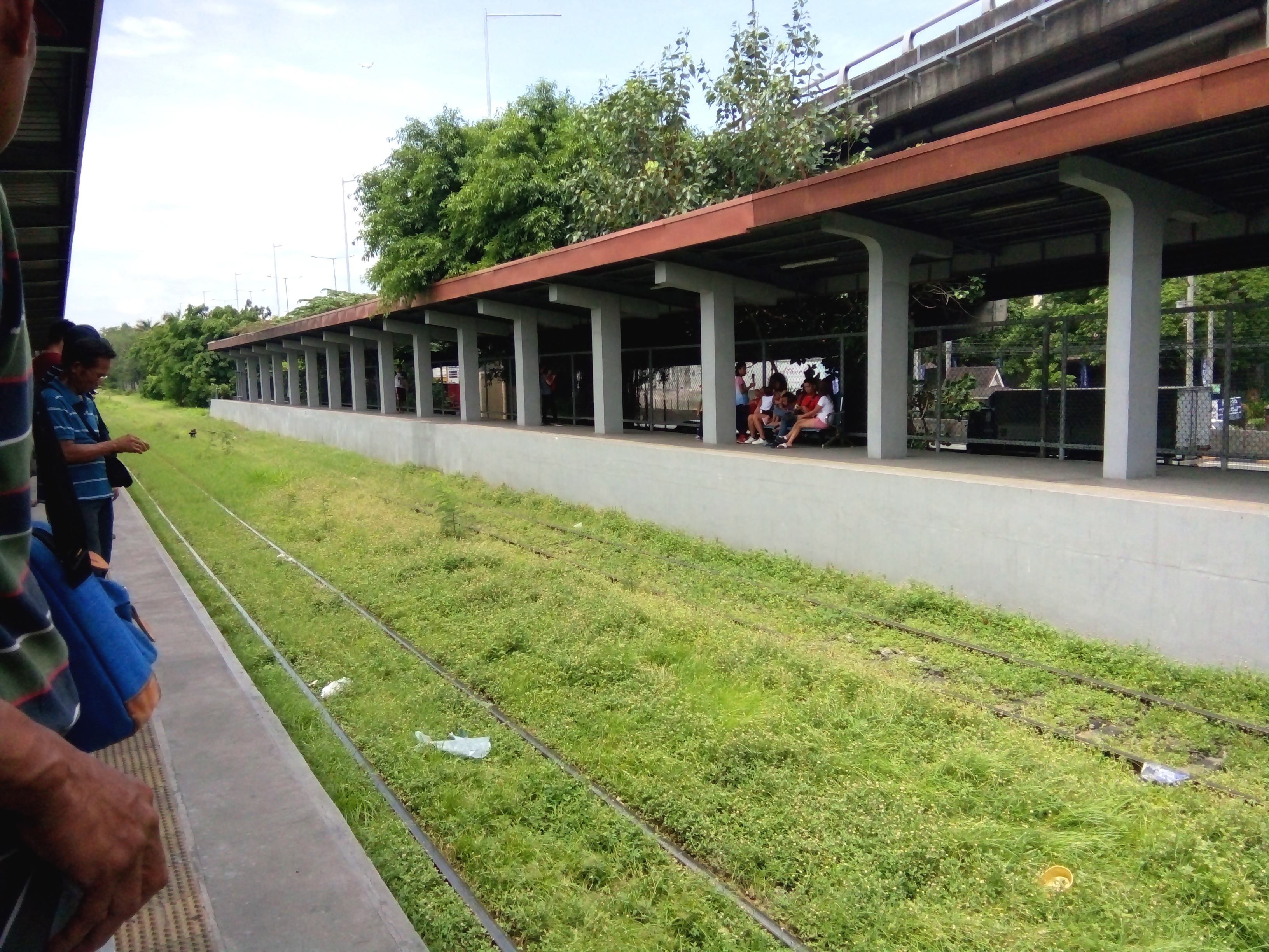 PNR railway station in FTI Taguig